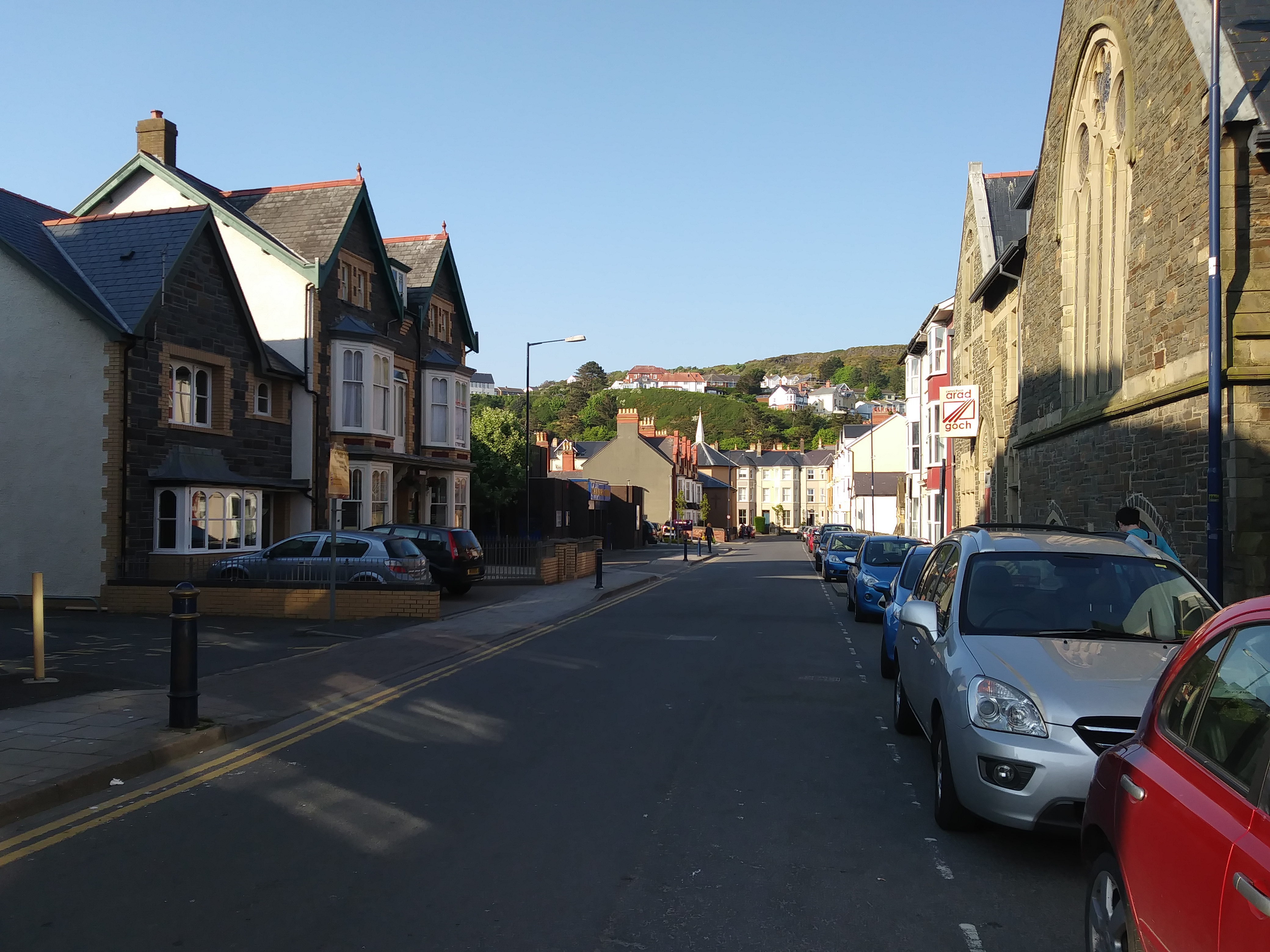 Bath St, Aberystwyth